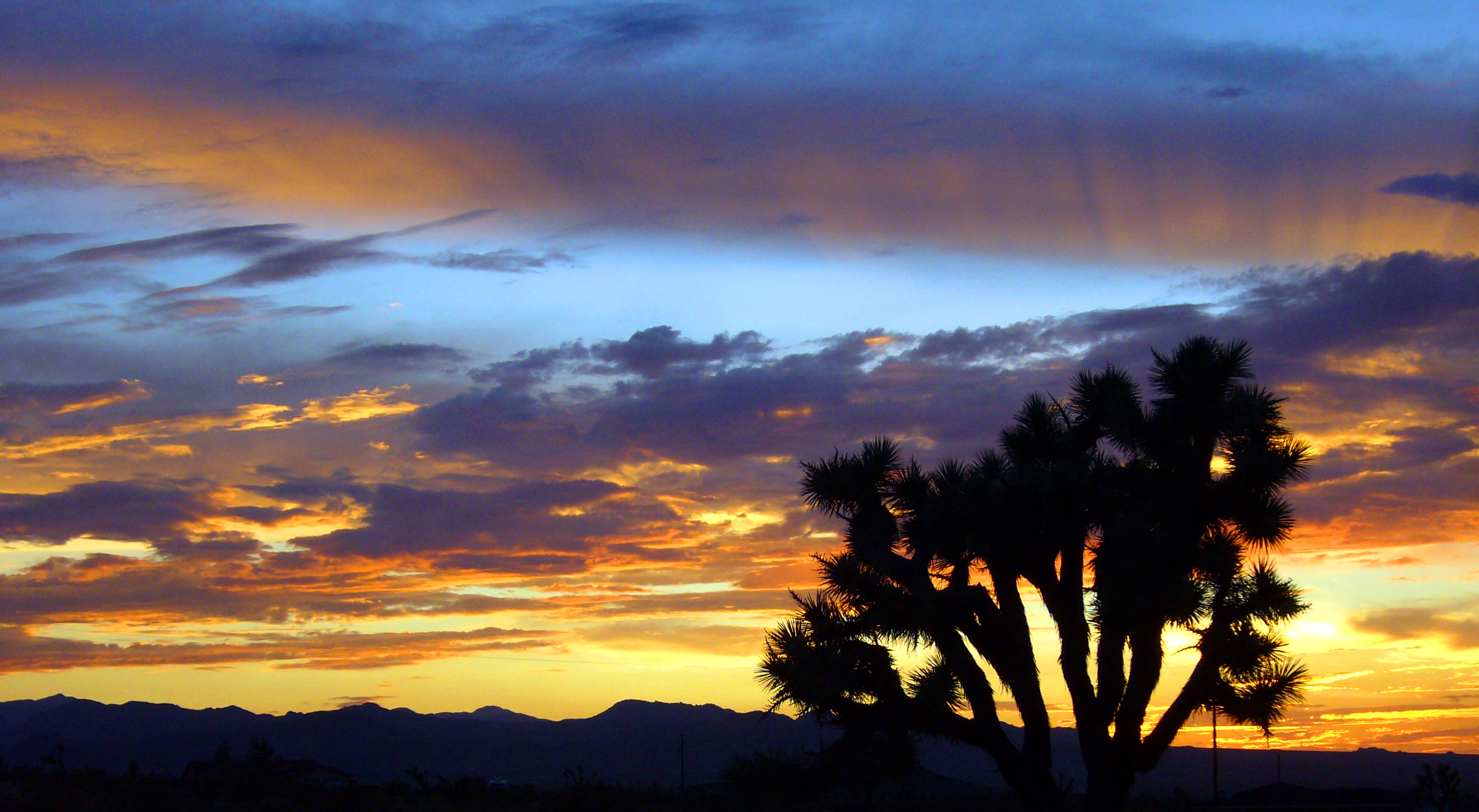 California High Desert Summer Sunset